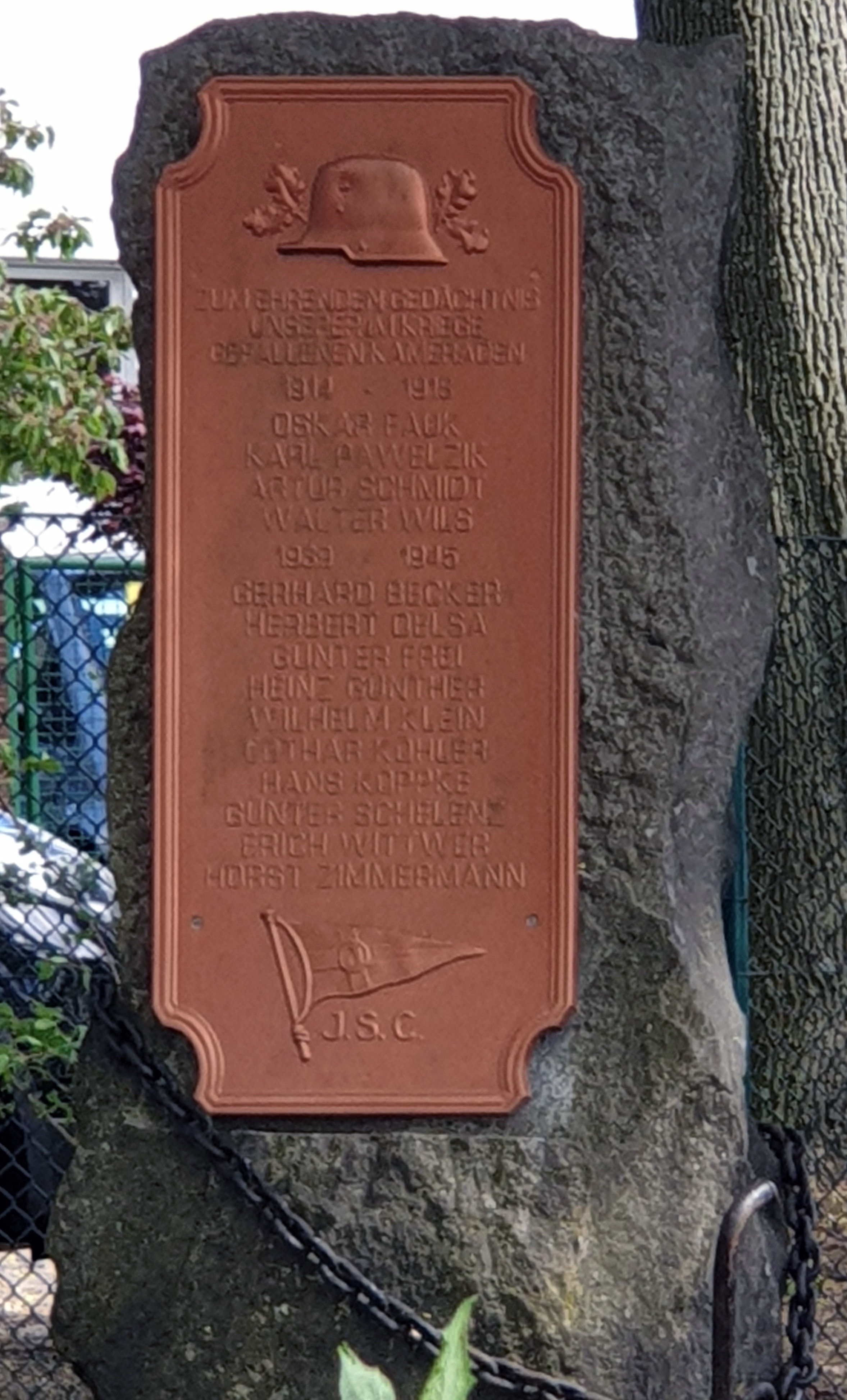 Memorial stone, Joersfelder Segel-Club, Kriegsopfer, Marlenestraße 19, Berlin-Konradshöhe, Germany